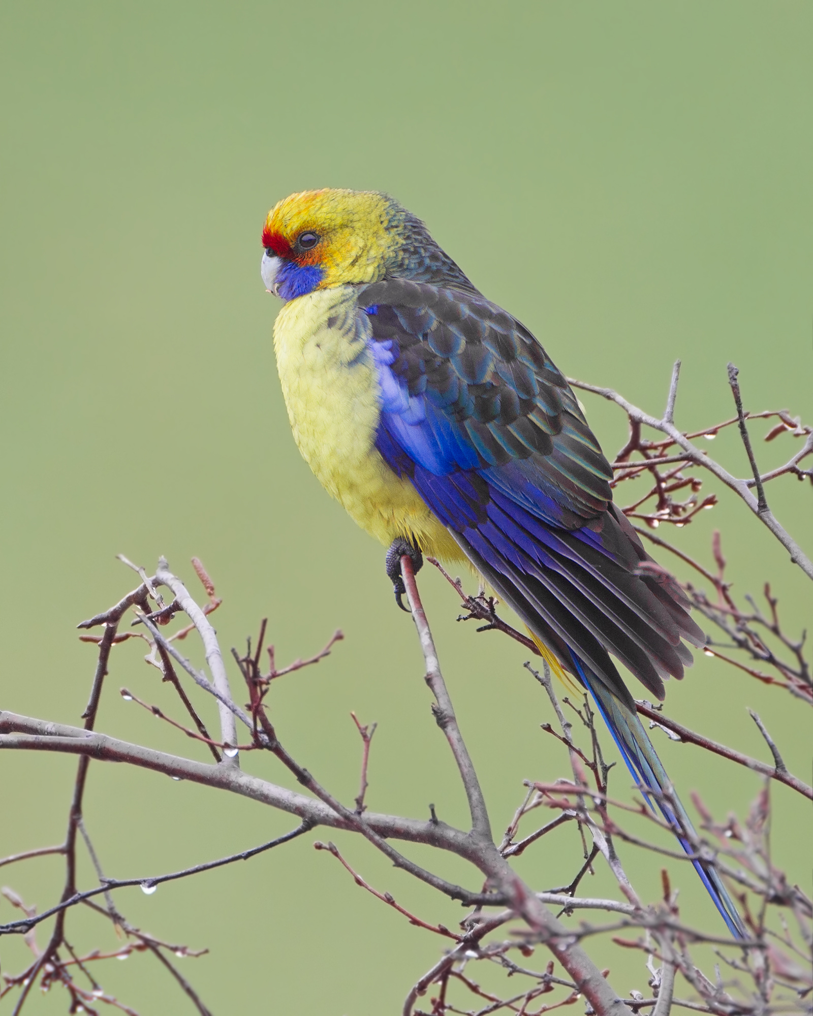 Green Rosella (Platycercus caledonicus), Collinsvale, Tasmania, Australia.